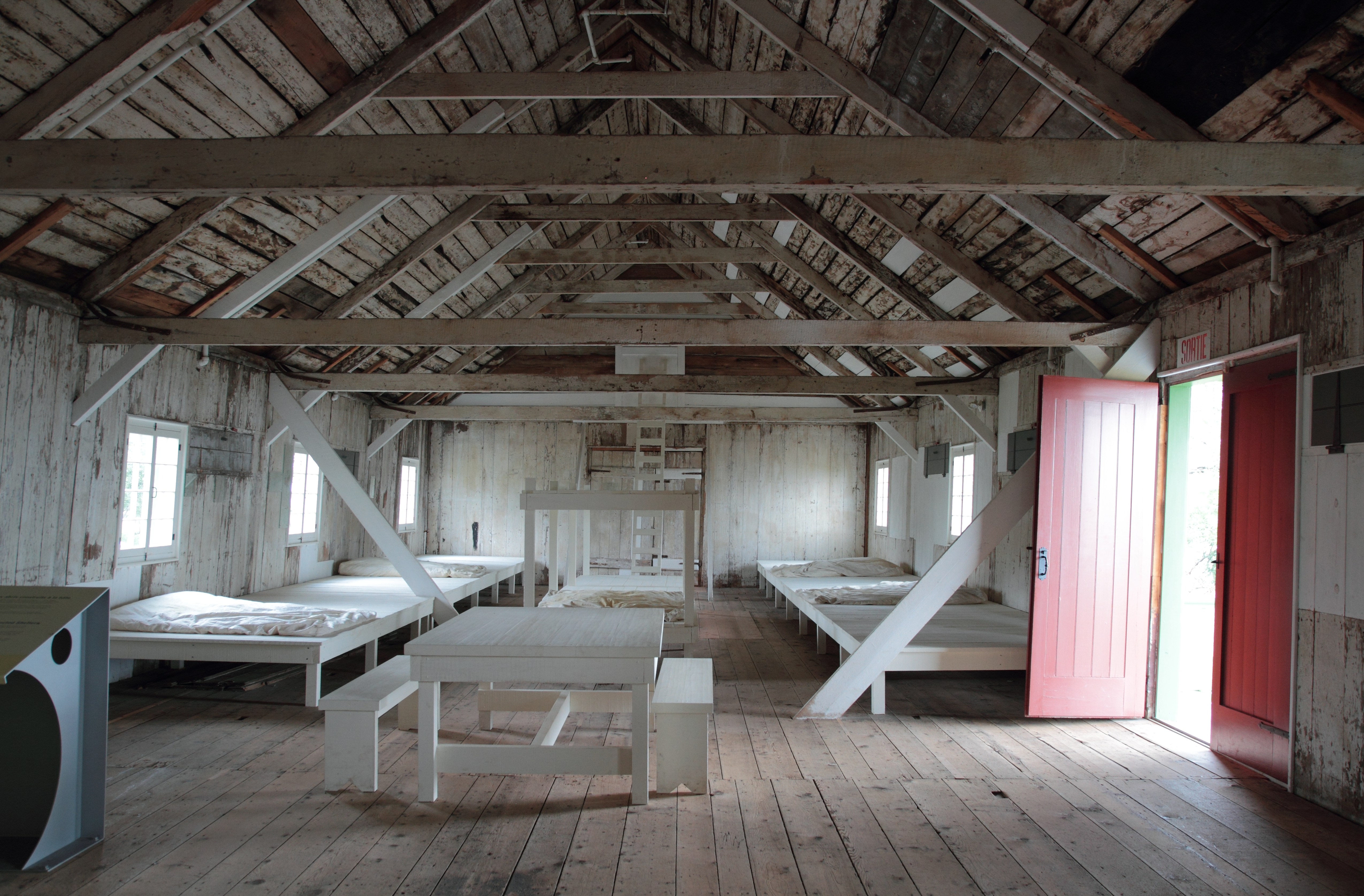 Lazaretto, smallpox hospital (1847), Grosse Isle, Quebec.